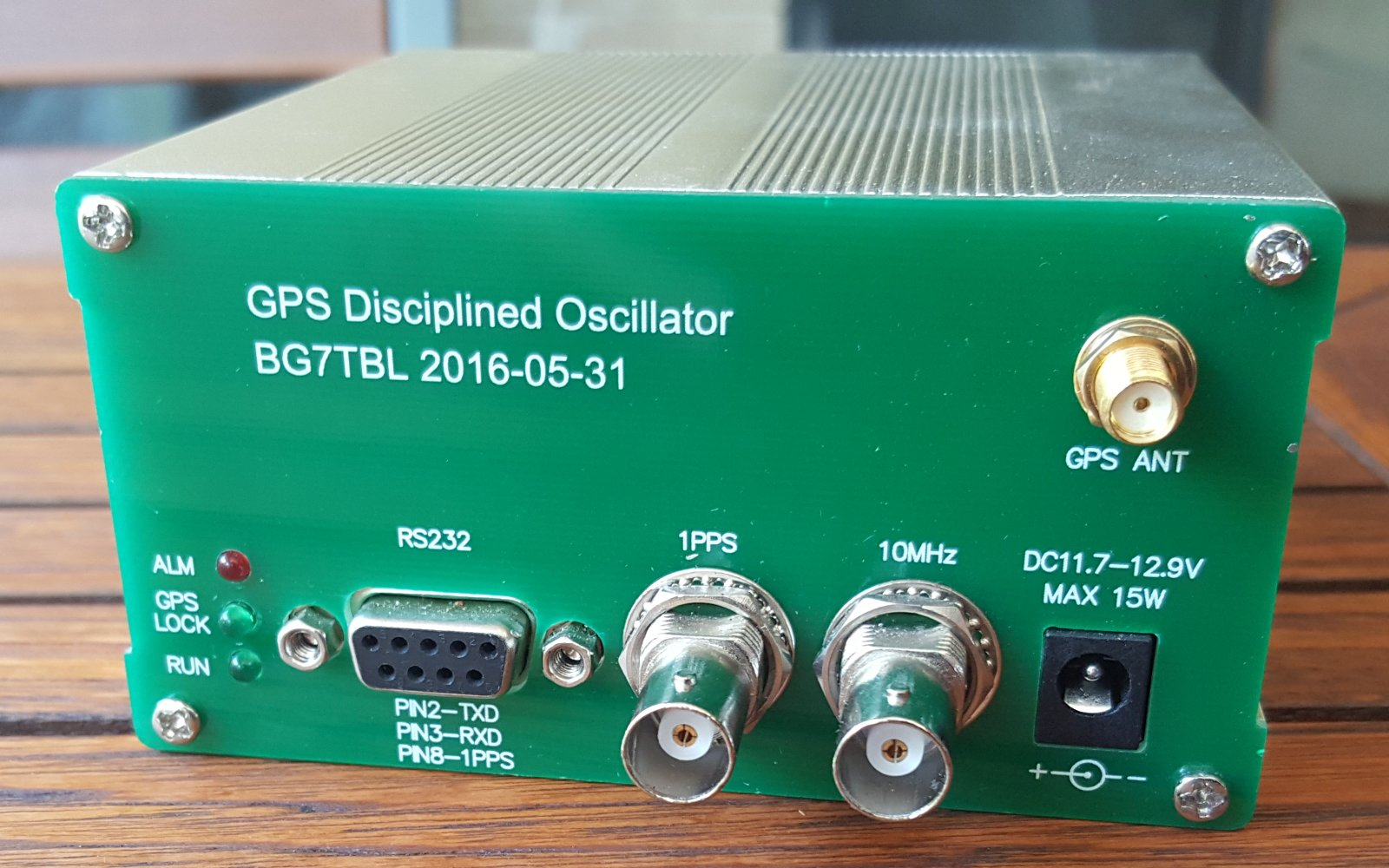 A GPS disciplined oscillator unit with 10 MHz and 1 PPS outputs and an RS232 interface.